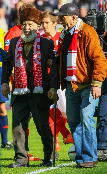 Старейший болельщик Спартака - 102-летний Отто Фишер